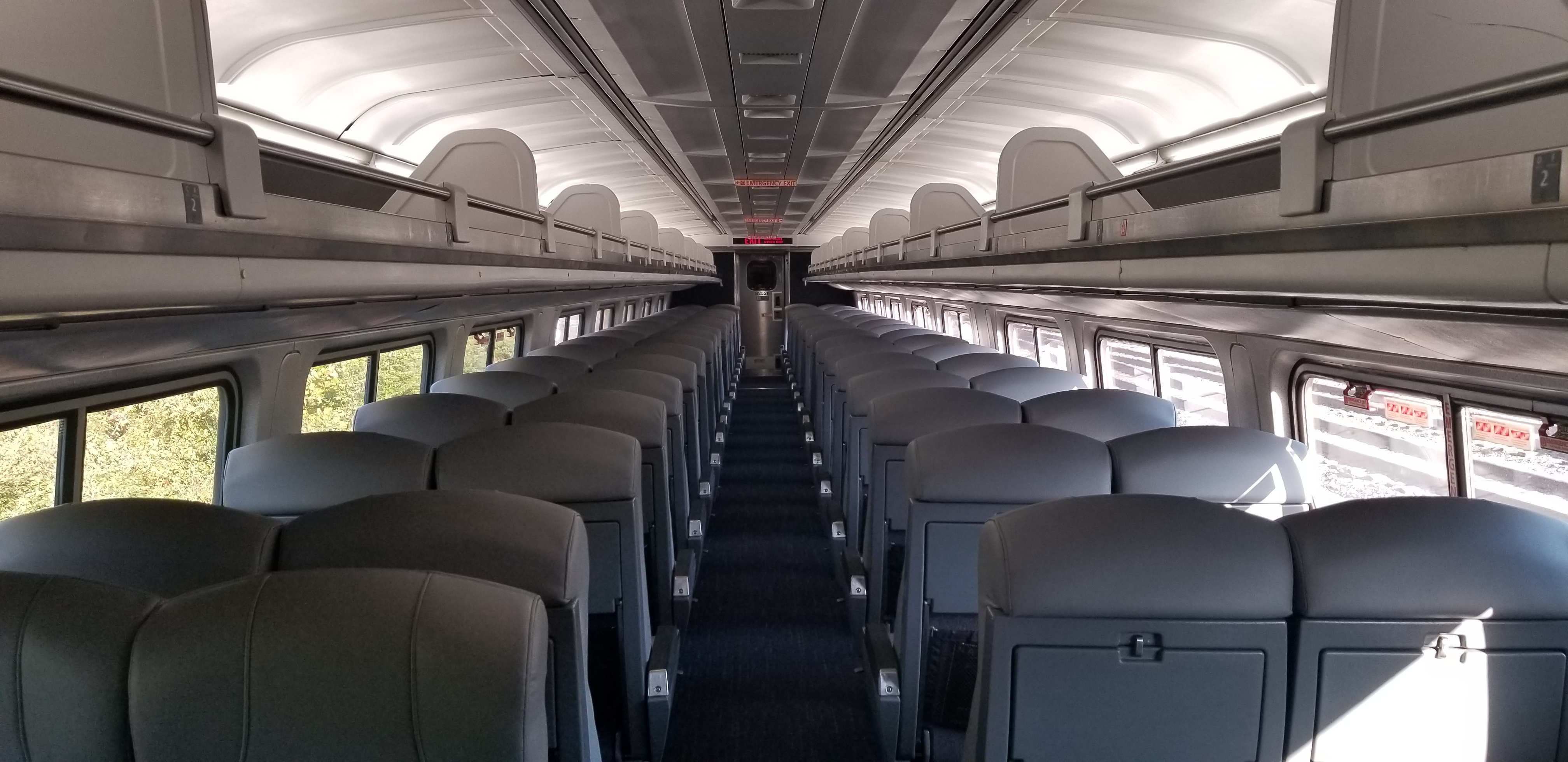 Interior of a refurbished Amtrak Amfleet I coach car in 2019